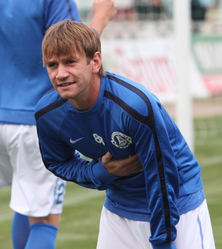 Dmytro Lyopa is a Ukrainian football midfielder